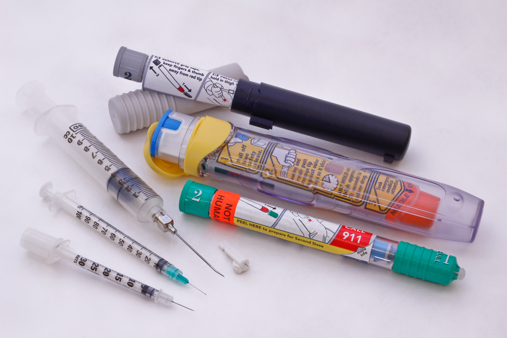 FDA-approved sharps disposal containers are made with puncture and leak-resistant plastic. The agency recommends that sharps - like needles, syringes, lancets and other devices used at home to treat diabetes, arthritis, cancer, and other diseases - be immediately placed after use in one of these containers. For more information about safe sharps disposal, visit